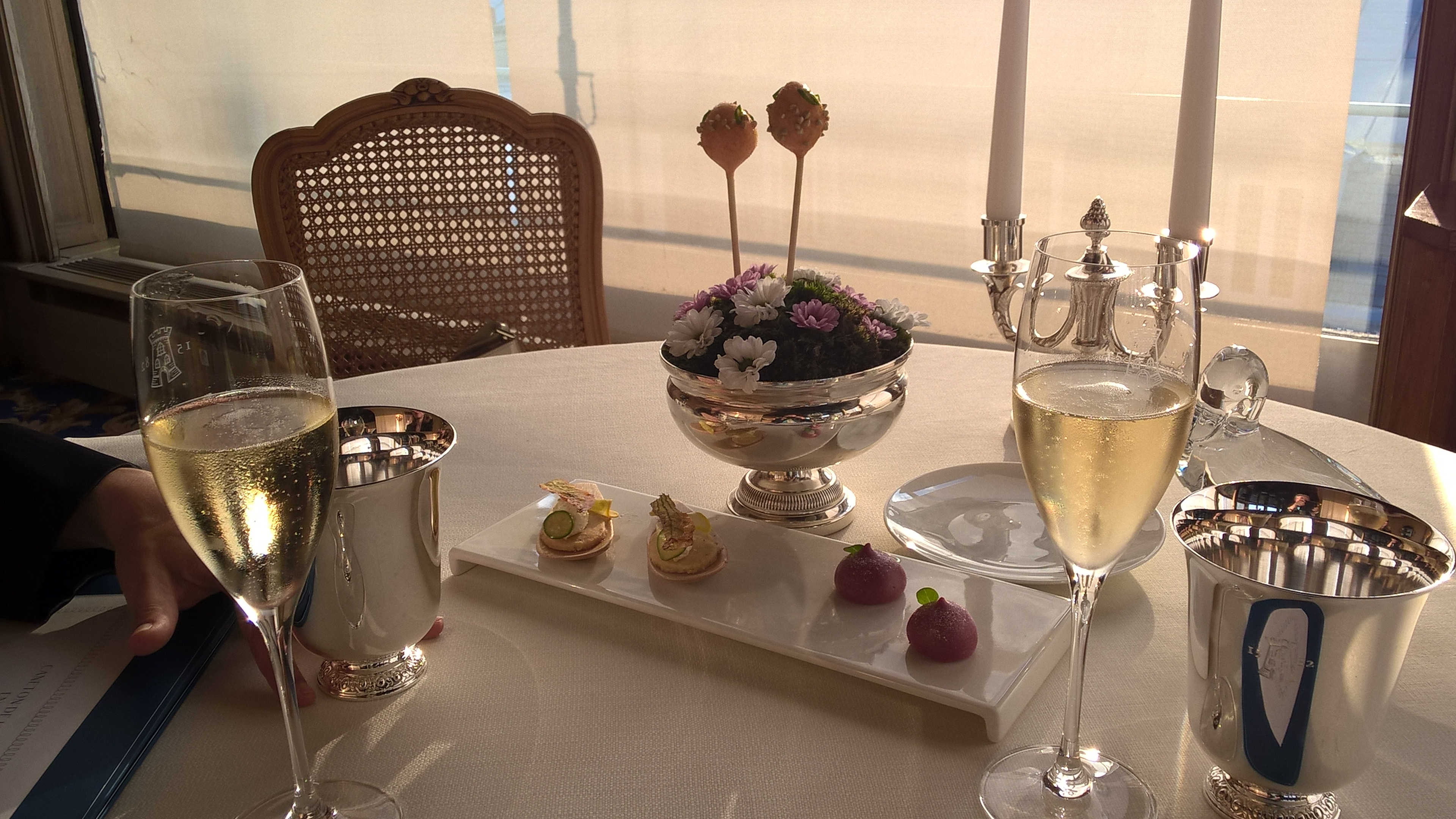 Table decoration in the restaurant la Tour d'Argent (Paris, France).